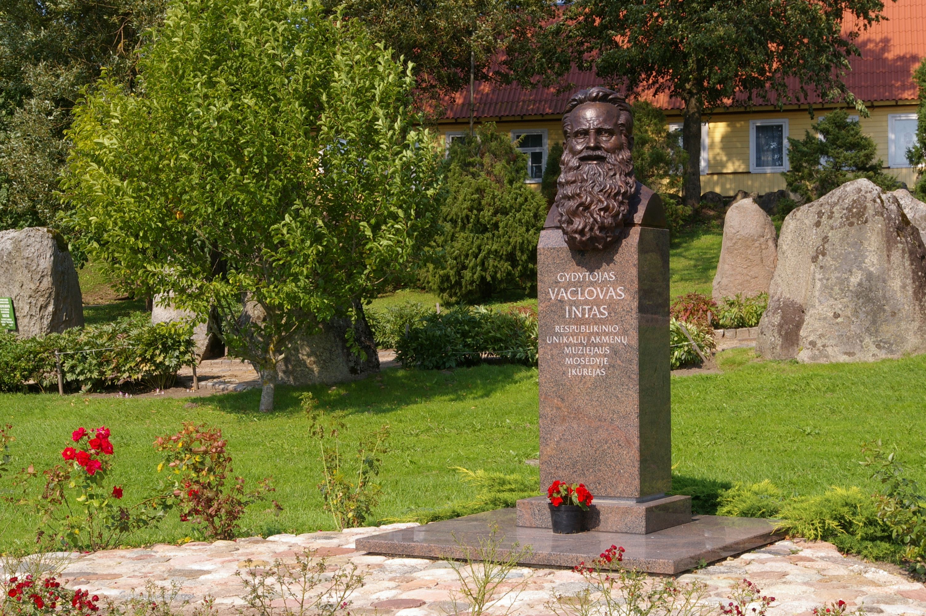 Monument for Vaclovas Intas in Mosėdis, Skuodas district, Lithuania.